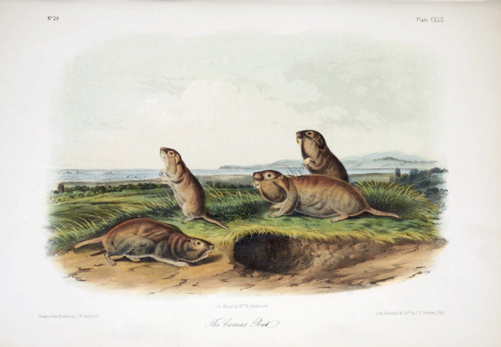 Print from The quadrupeds of North America, by John James Audubon and the Rev. John Bachman showing the "Camas Rat" now known as Thomomys bulbivorus